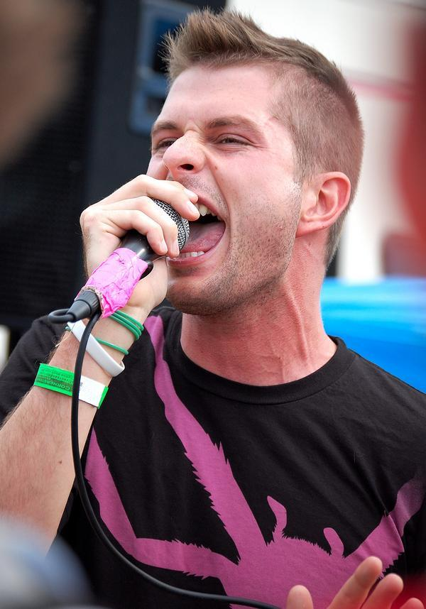 Chad Ackerman singing at Cornerstone Festival 2008 in Bushnel, Illinois.